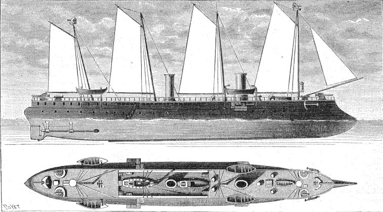 French cruiser Alger